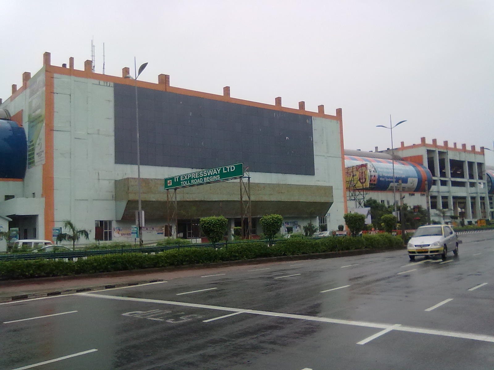 Kasturbai nagar station